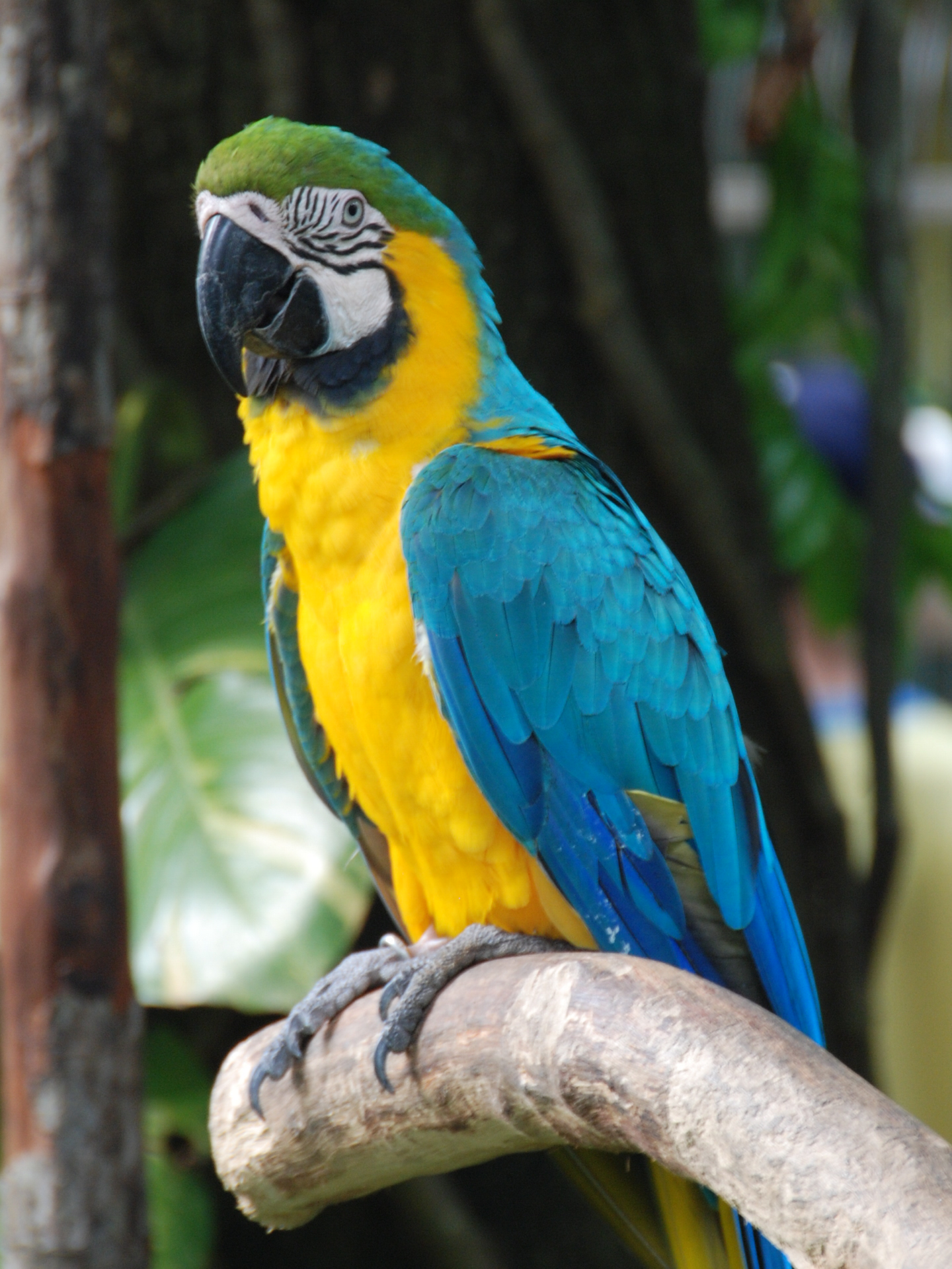 Blue-and-yellow Macaw (Ara ararauna) also known as the Blue-and-gold Macaw. Taken at bird park in Singapore.